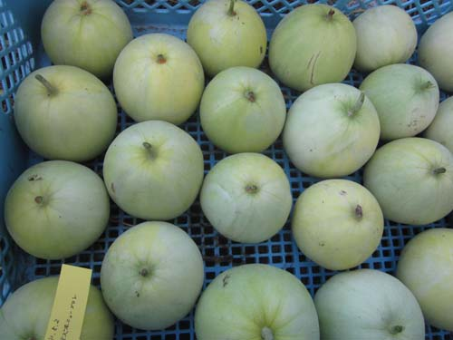 Japanese Oriental melon cultivar New Melon − Primarily grown in the Hokuriku region − predecessor of the Prince melon – The flesh is soft, and slightly sweet